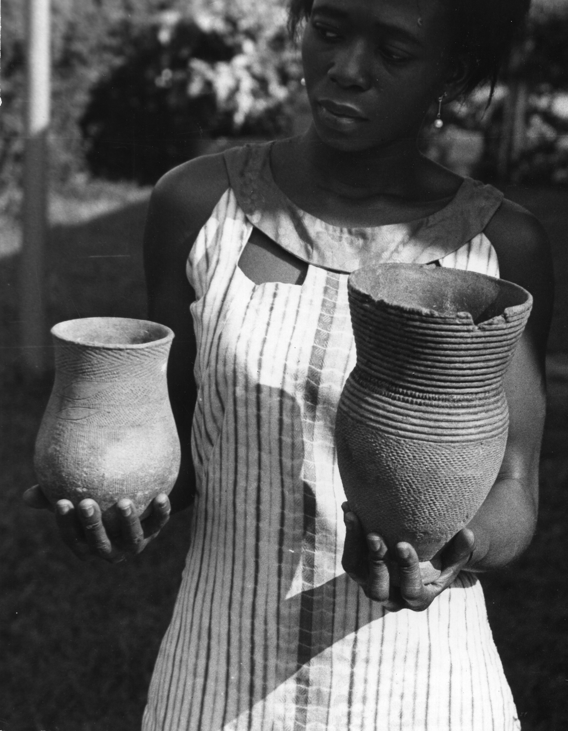 Photo taken in 1968 behind the Sierra Leone Museum in Freetown.